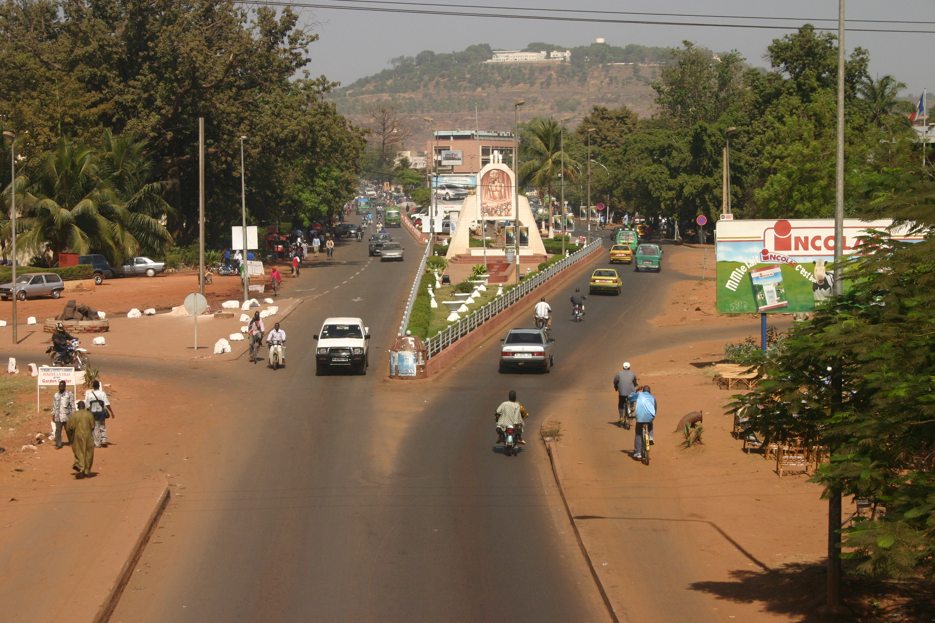 Toward the Presidential Palace, in the background. Bamako, Mali